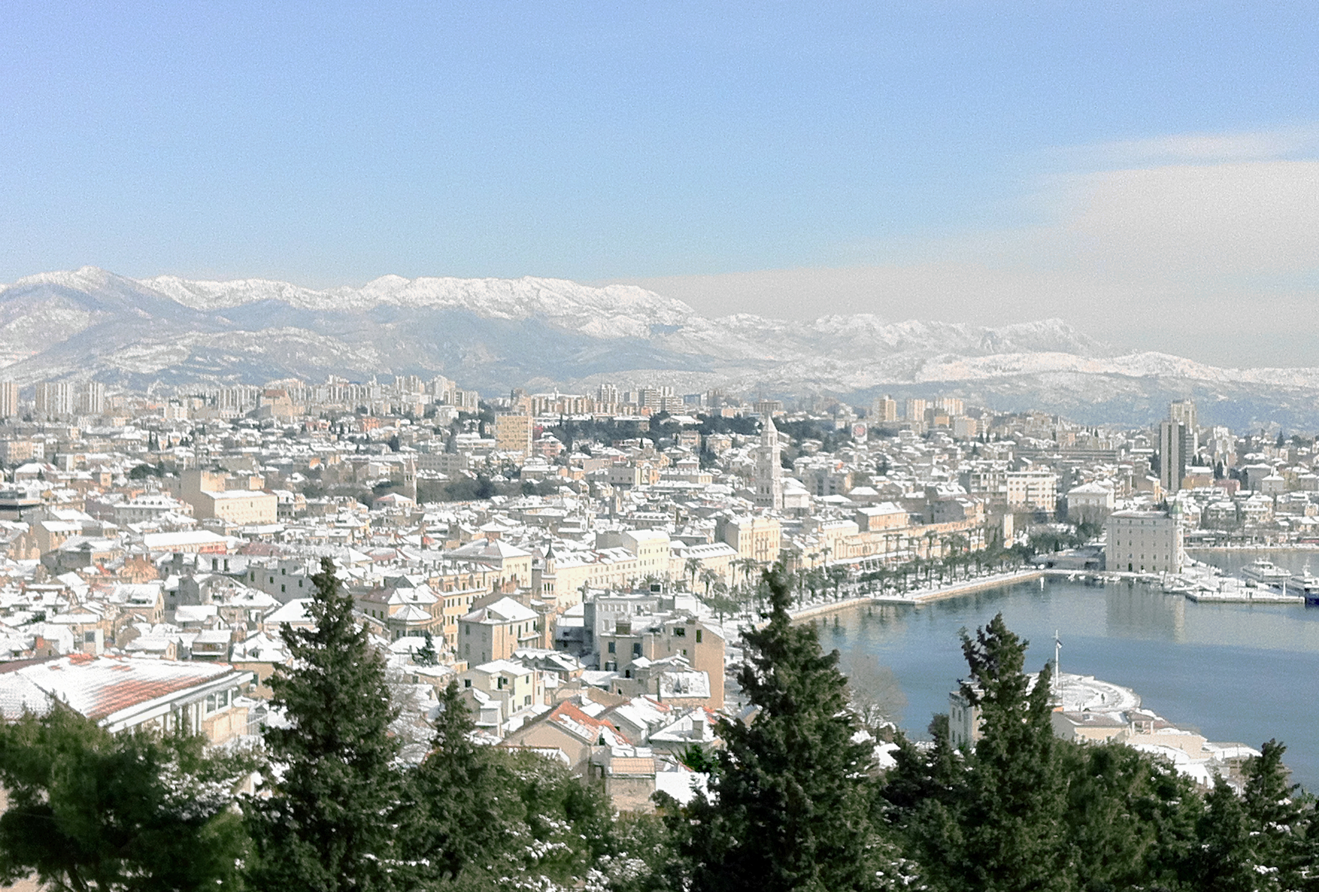 Panoramic view of the City of Split, Croatia from Marjan Hill, as seen in sunny weather two days after heavy snowfall.